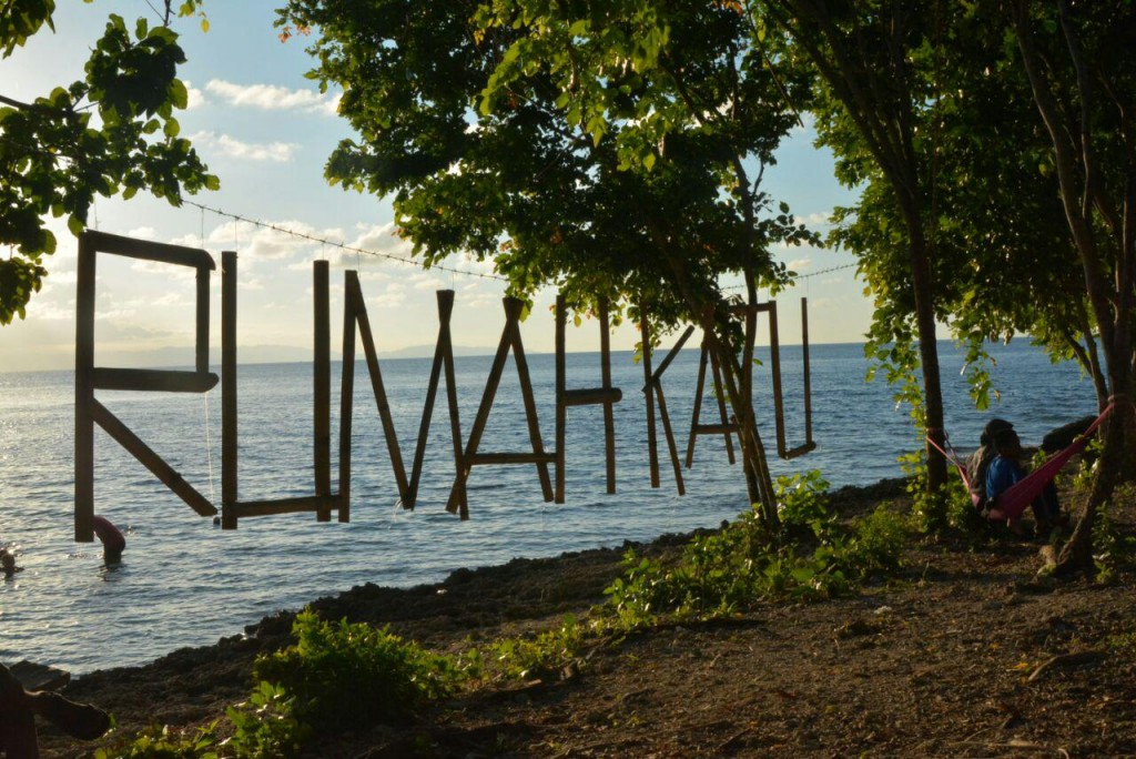 The signage of Rumah Katu Marine Park.